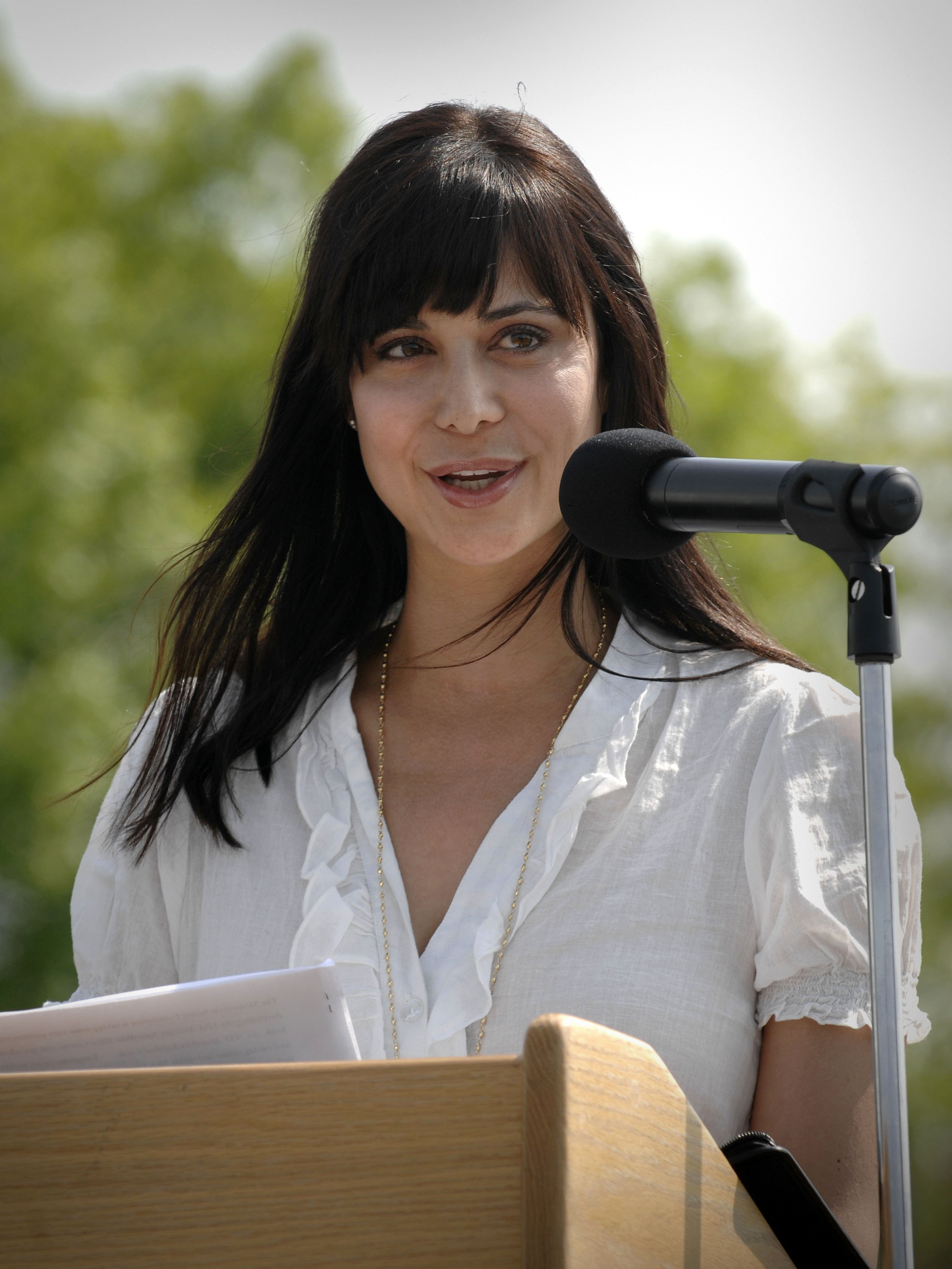 Catherine Bell, an actress known for her roles of Marine Lt. Col. Sarah MacKenzie on the television show JAG and Denise Sherwood on the Lifetime series Army Wives, speaks at the second annual National Capital Region Joint Services motorcycle safety event at the Pentagon.